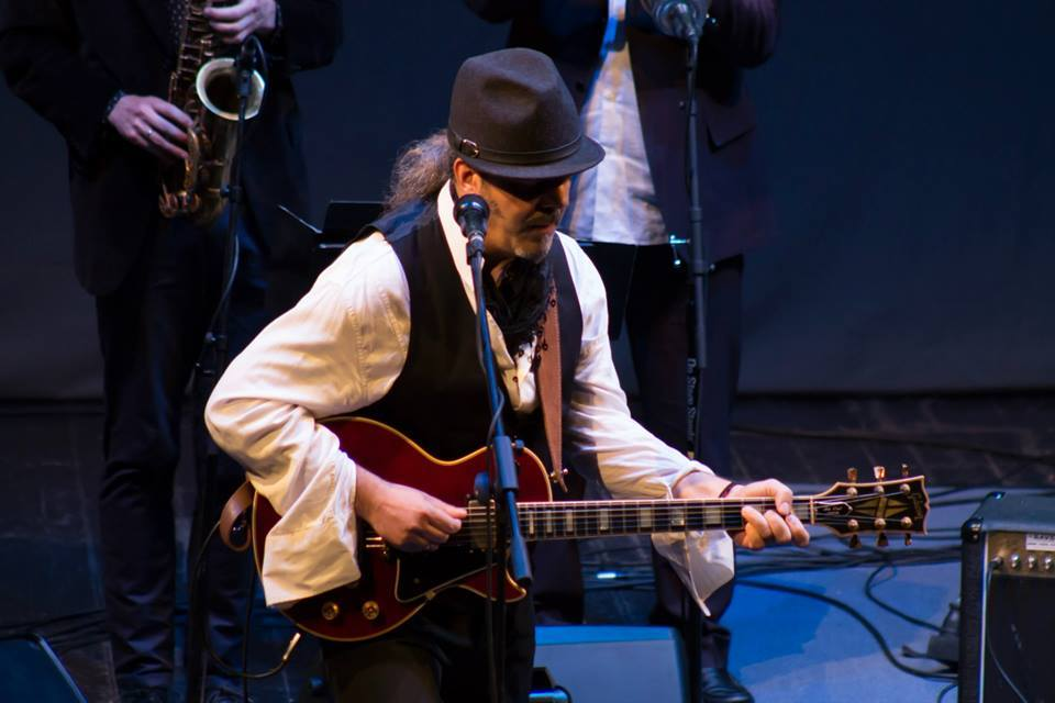 Jam sessions și workshop-uri